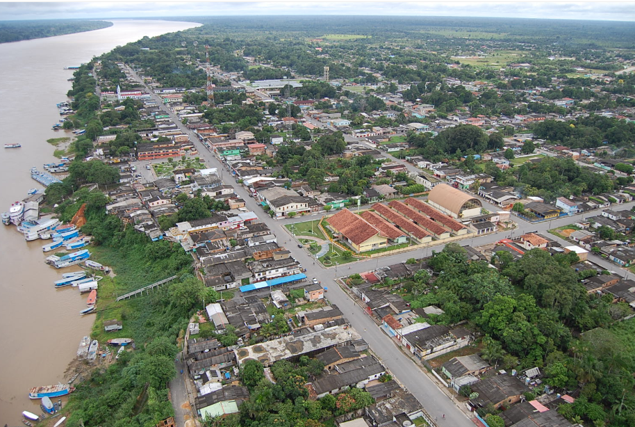 Aerial view of the City of Manicoré